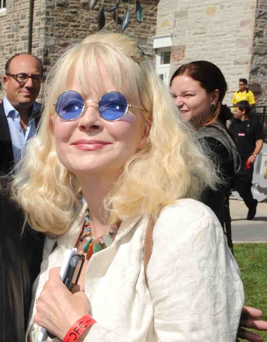 Leah Pinsent at Norman Jewison's annual Canadian Film Centre BBQ 2013. :Original caption: “The 2013 CFC Annual BBQ celebrated CFC's work at the 2013 Toronto International Film Festival and its 25th Anniversary. Hosted by Norman Jewison during the Toronto International Film Festival (TIFF), the CFC Annual BBQ is held in celebration of the independent creative spirit. As one of the most sought after tickets on the TIFF party circuit, this exclusive invitation-only event takes place at Windfields, home of the CFC. In this informal, outdoor setting, guests are treated to food from some of Toronto’s finest restaurants and catering companies, in addition to enjoying selected wine, beer and spirits. Photo by Tom Sandler Photography.”